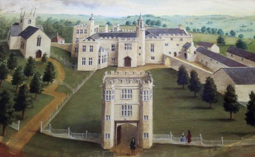 Old Shute House, nr Colyton, Devon. Bird's eye view from west, painting prior to partial demolition of 1785.